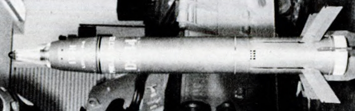 Prototype model of the Army’s 155mm CLGP (cannon-launched guided projectile) at Fort Sill, Oklahoma